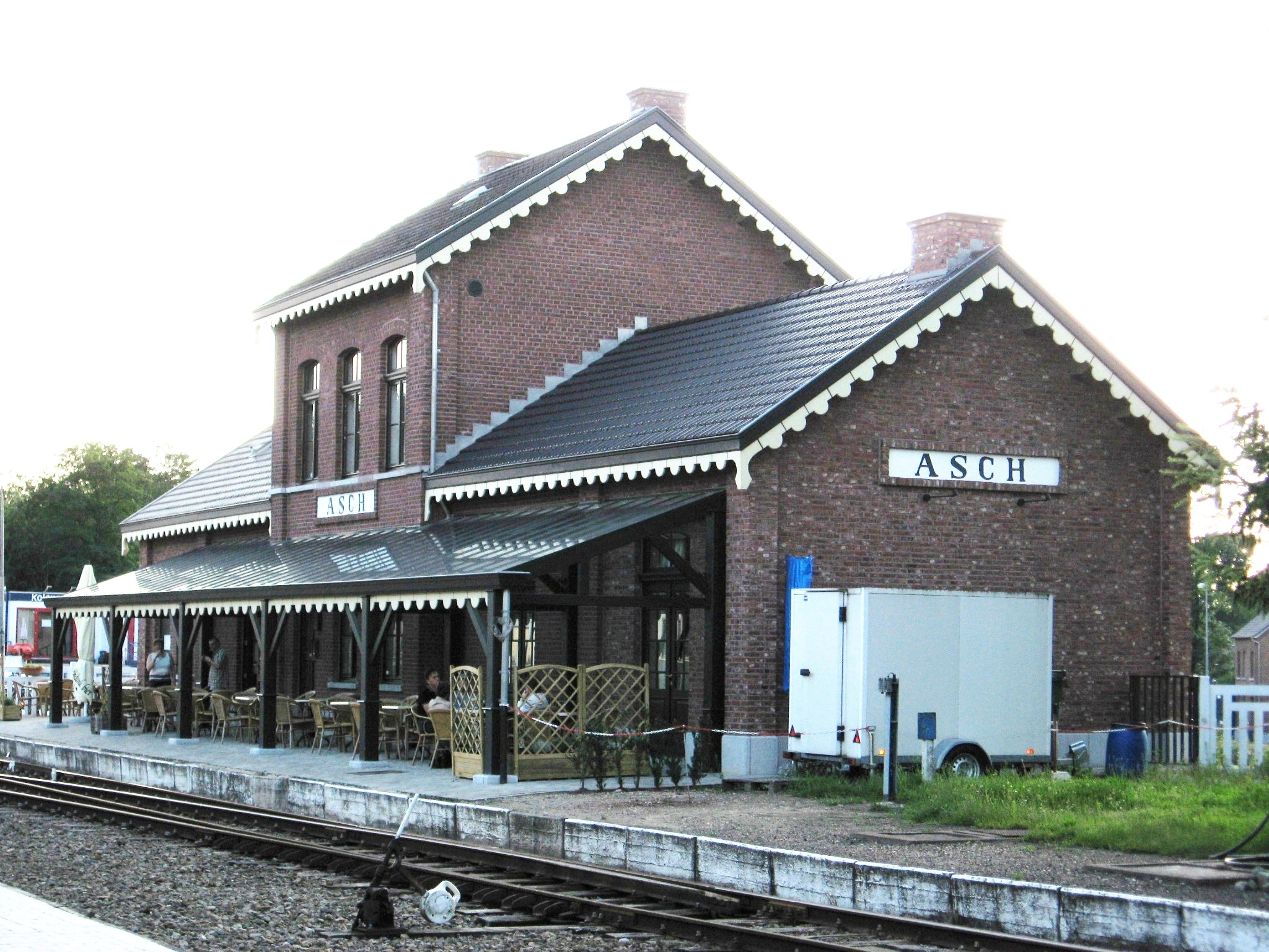 The restored former railway station at As in Belgium